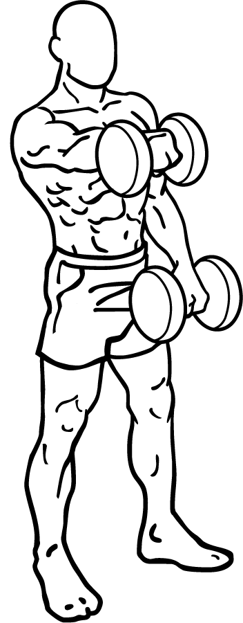 an exercise of shoulders